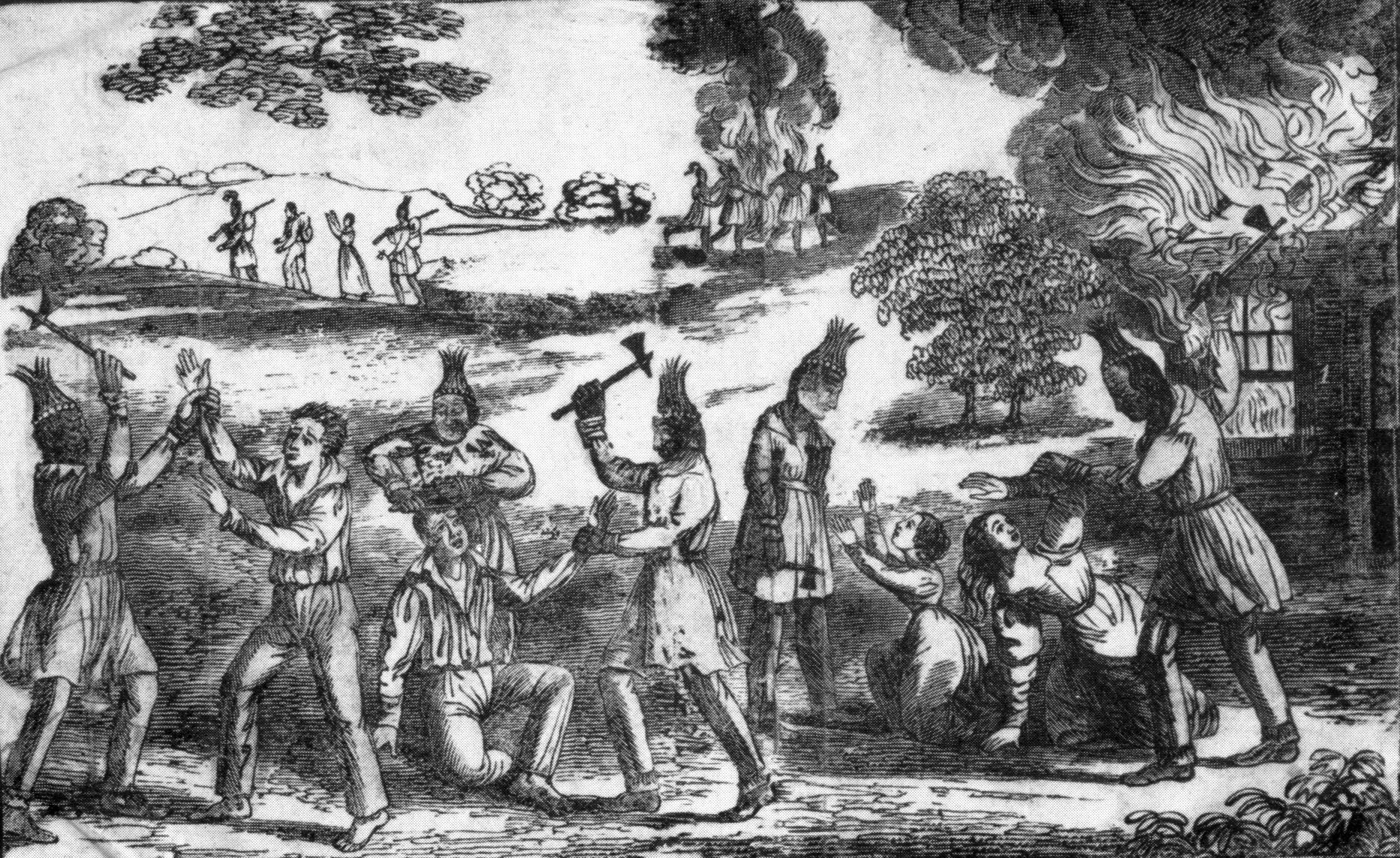 "WHITE SETTLERS MASSACRED BY THE SEMINOLES: During the Seminole War of 1835-1836. From a woodcut in An Authentic Narrative of the Seminole War, Providence, 1836."